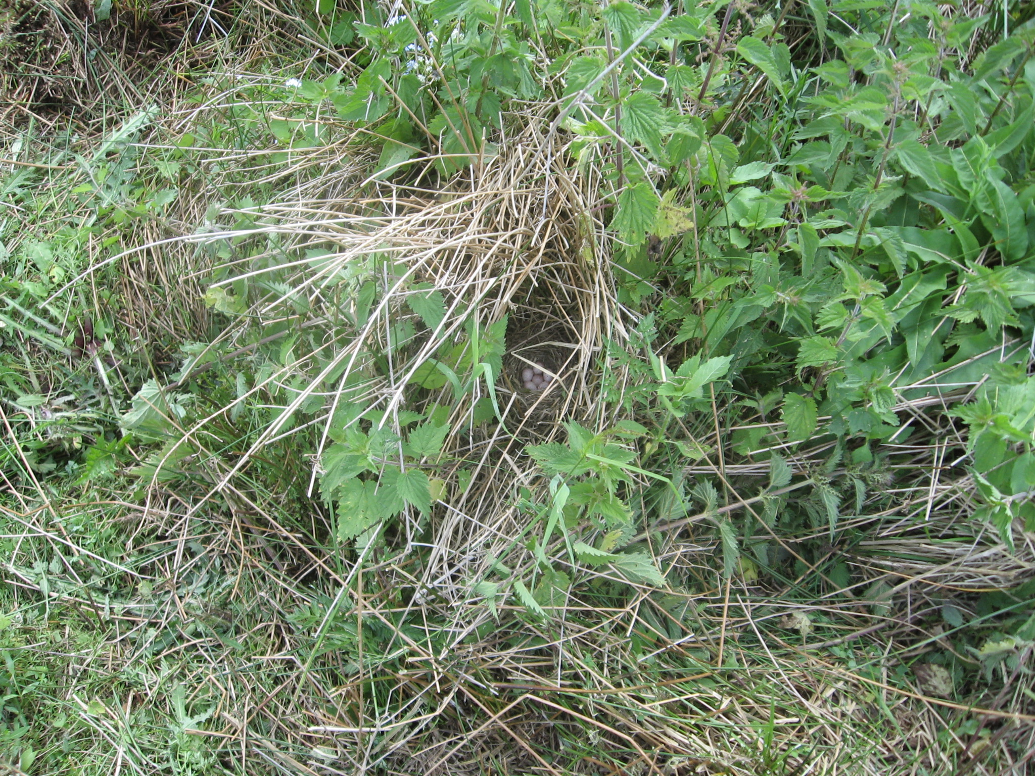 Nest of Anthus pratensis in the nature reserve "Hemmeker Bruch, City Brilon, Sauerland, Germany